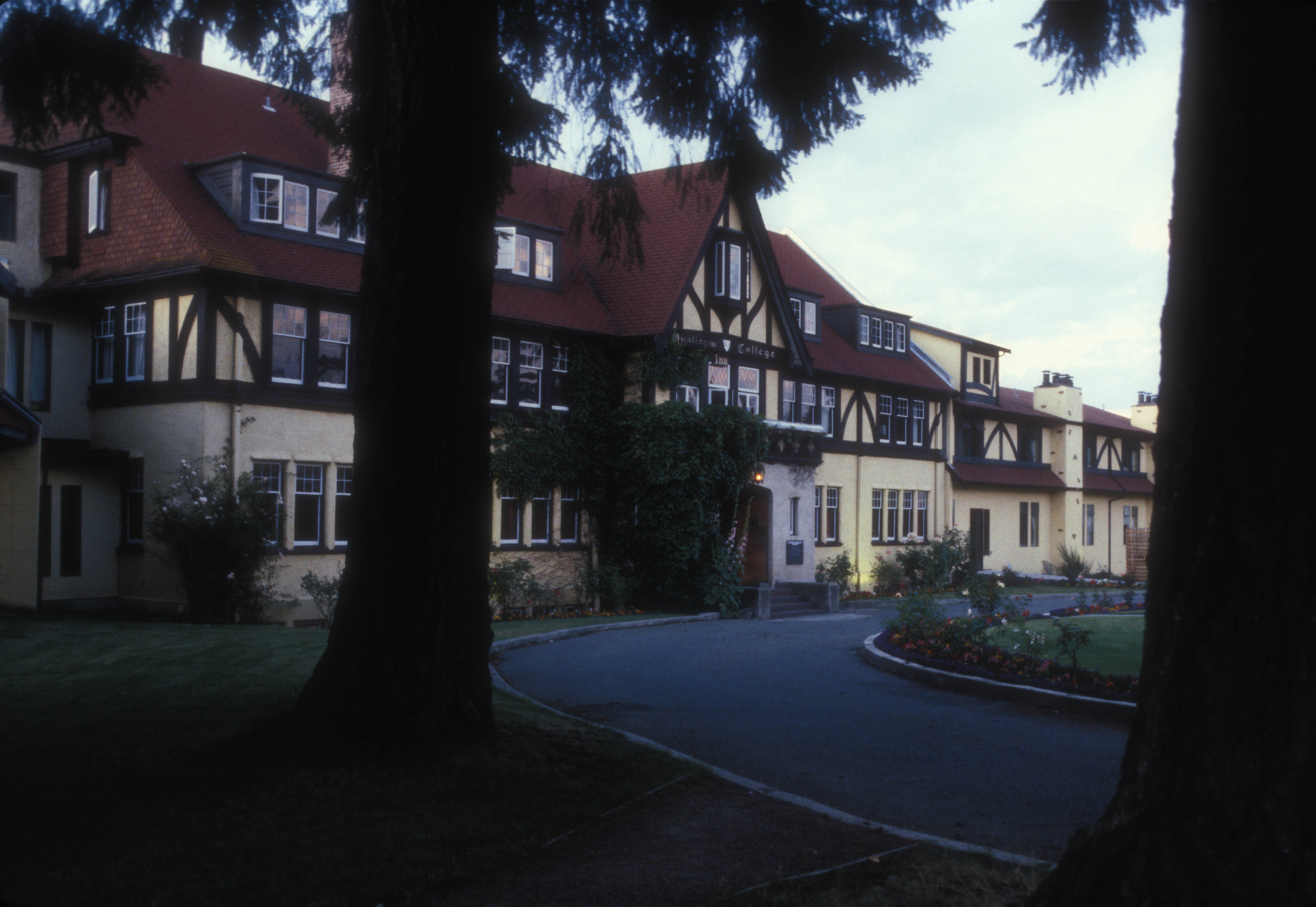 THE QUALICUM COLLEGE, WAS ESTABLISHED IN 1935 BY ROBERT IVAN KNIGHT. THE SCHOOL GREW THROUGH THE 1960S, BUT ATTENDANCE DIMINISHED, AND IT CLOSED IN 1970.IT BECAME A MOTEL IN QUALICUM BEACH UNTIL 2007 BUT THAT HAS SINCE CLOSED AND THE STRUCTURE IS NOW EMPTY